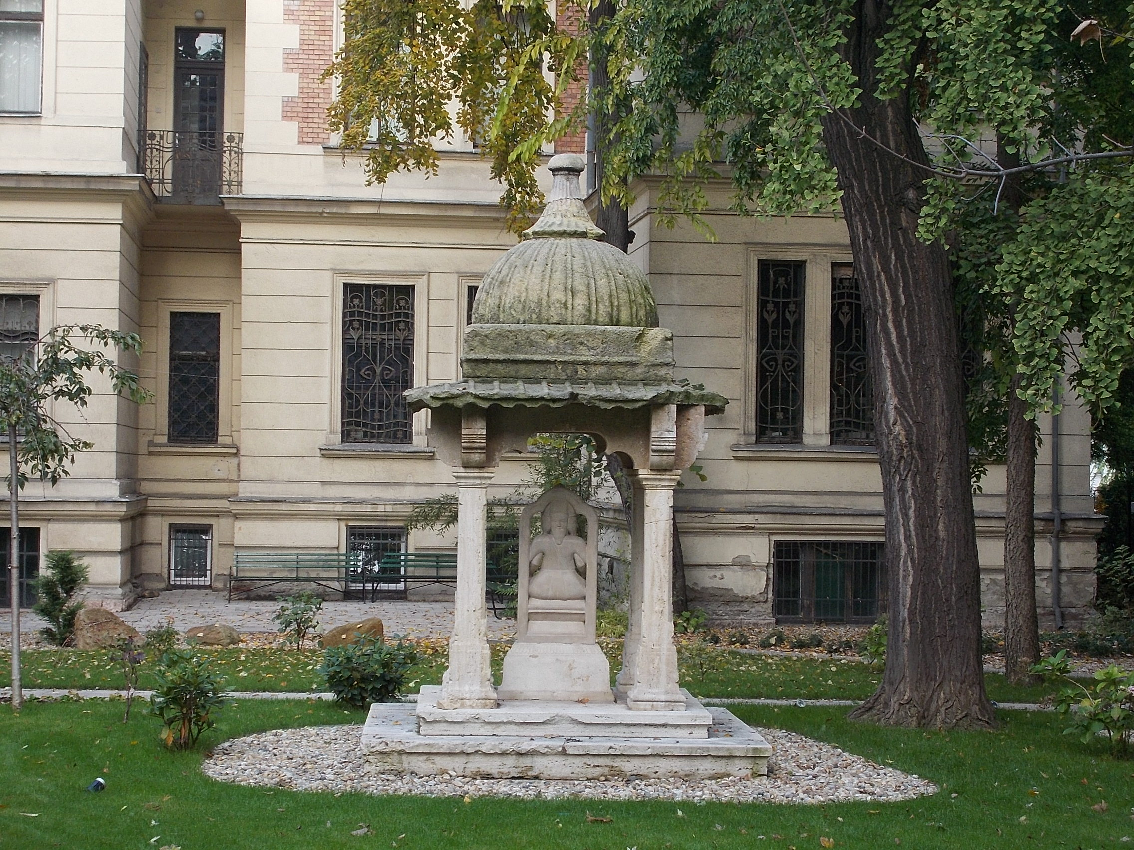 A Hopp Ferenc Kelet-ázsiai Művészeti Múzeum, a Szépművészeti Múzeum szakmúzeuma. Gyűjtőkörébe a Távol-Kelet művészeti emlékei tartoznak. - Budapest, Terézváros, Andrássy út 103.